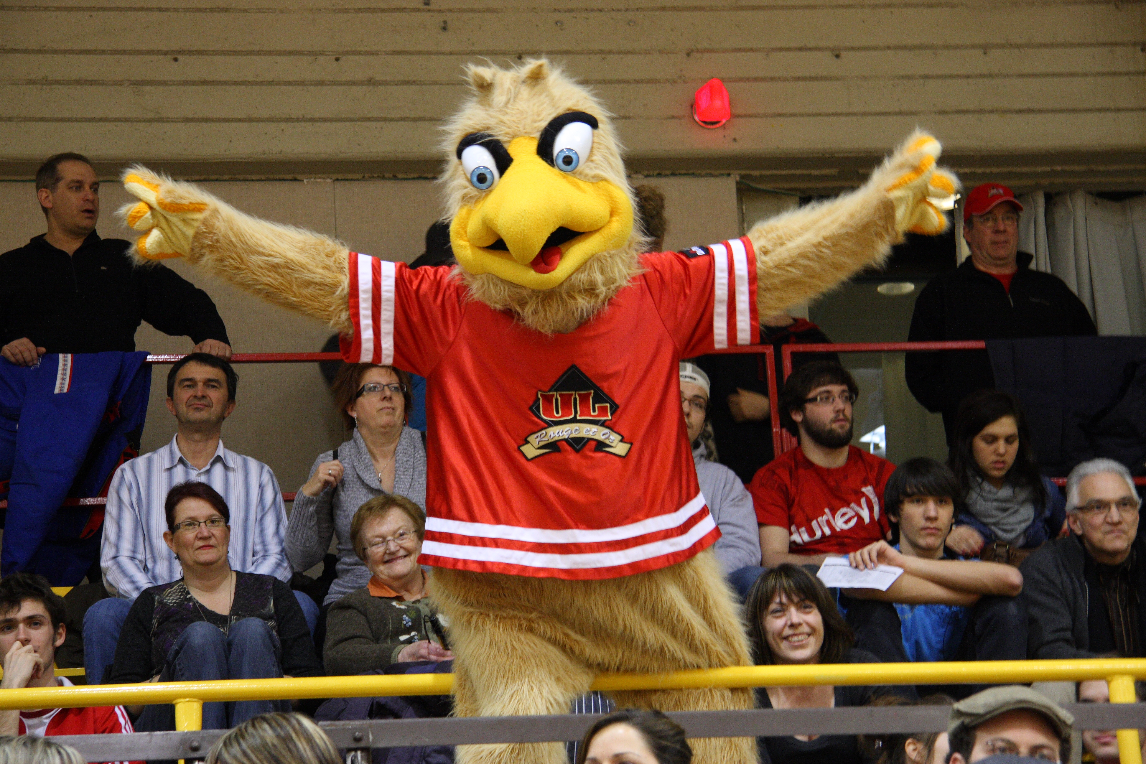 Victor, Laval Rouge et Or mascot.